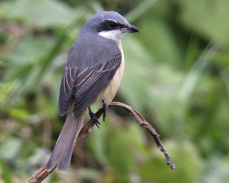 Grey-backed Shrike Lanius tephronotus นกอีเสือหลังเทา Khao Yai, Thailand 18th. January 2009 690V1496